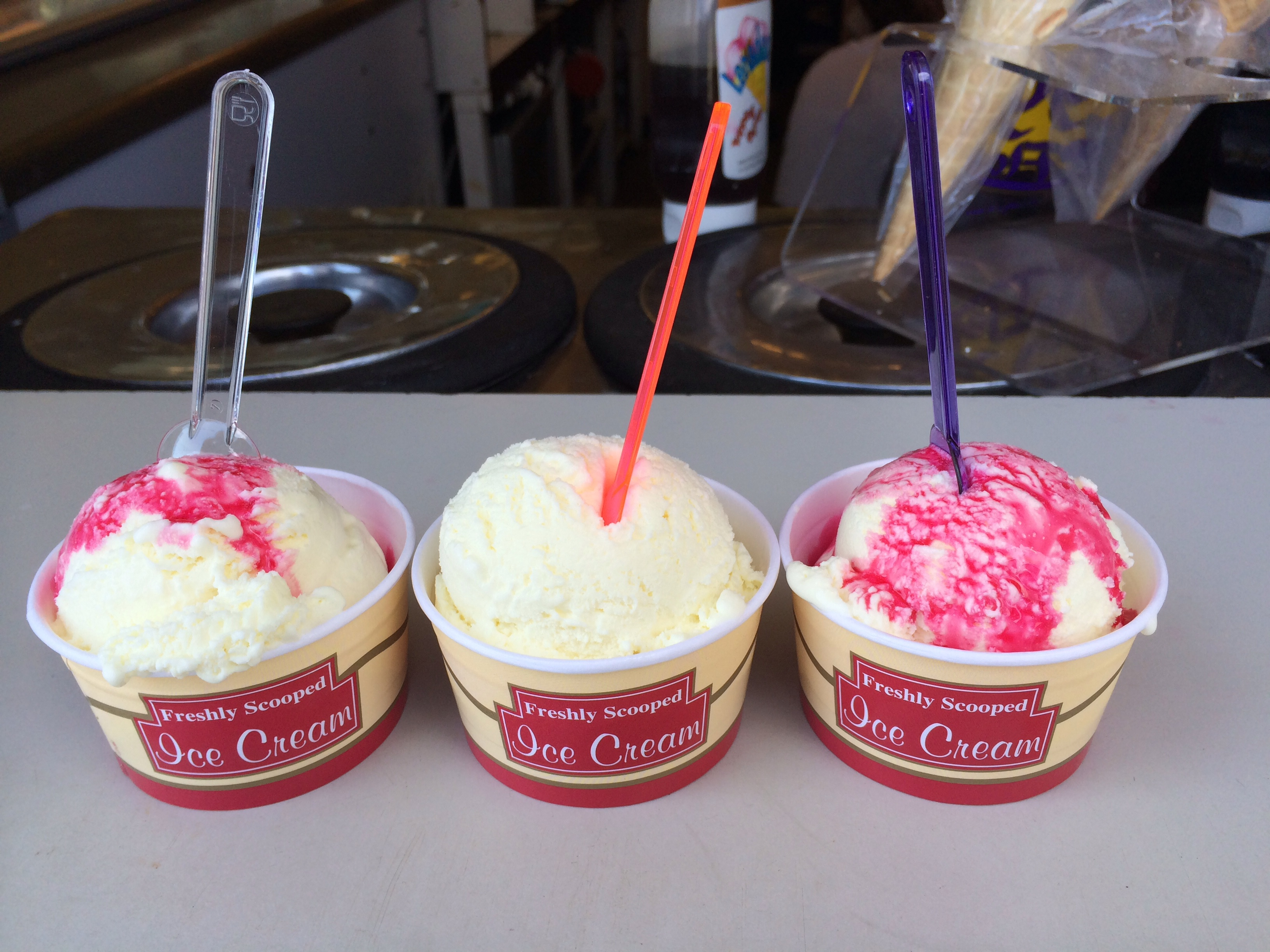 Forte's Ice Cream in three tubs on service counter of their ice cream parlour at Bracelet Bay, Mumbles, Swansea, Wales